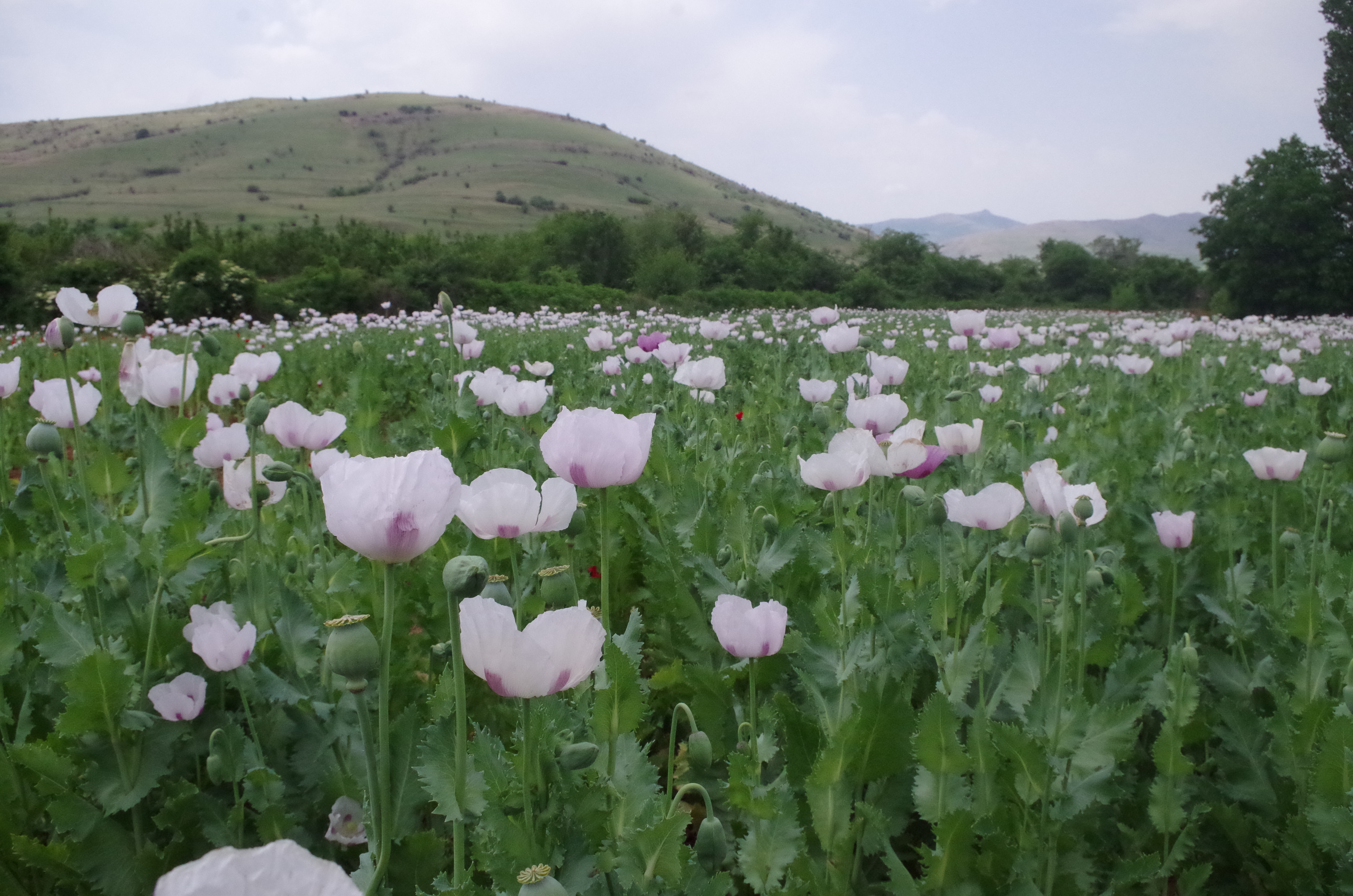 Opium/bread seed poppy field near village of Sirkovo, Macedonia